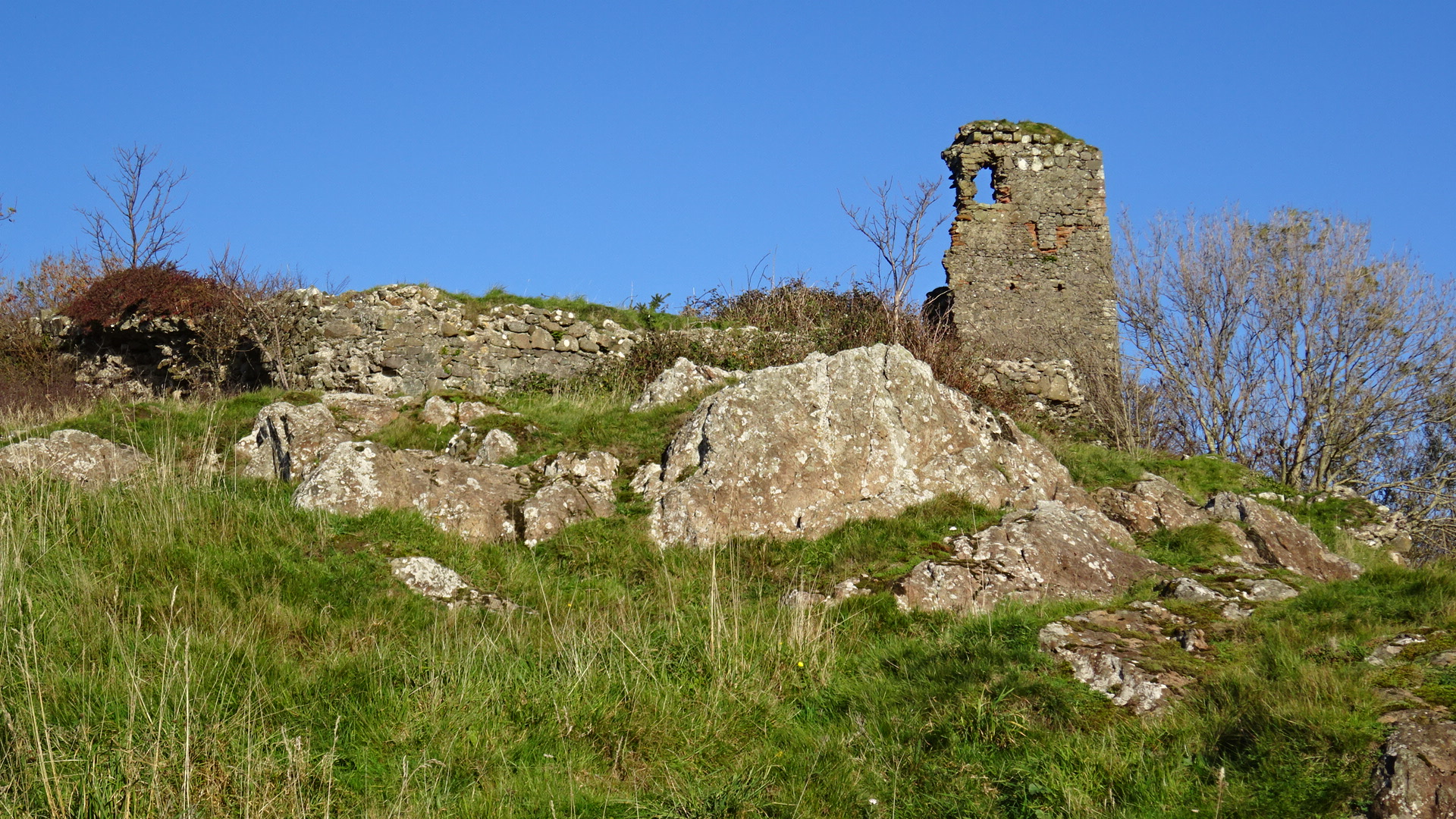 Ardstinchar Castle's tower & walls, Ballantrae, South Ayrshire, Scotland.